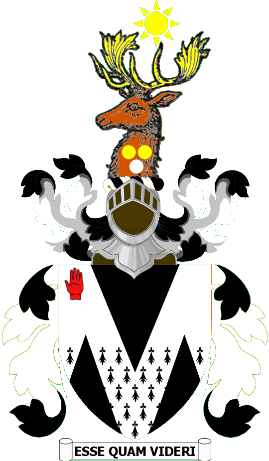 The armorial achievement of the Hulse baronets of Lincoln's Inn Fields